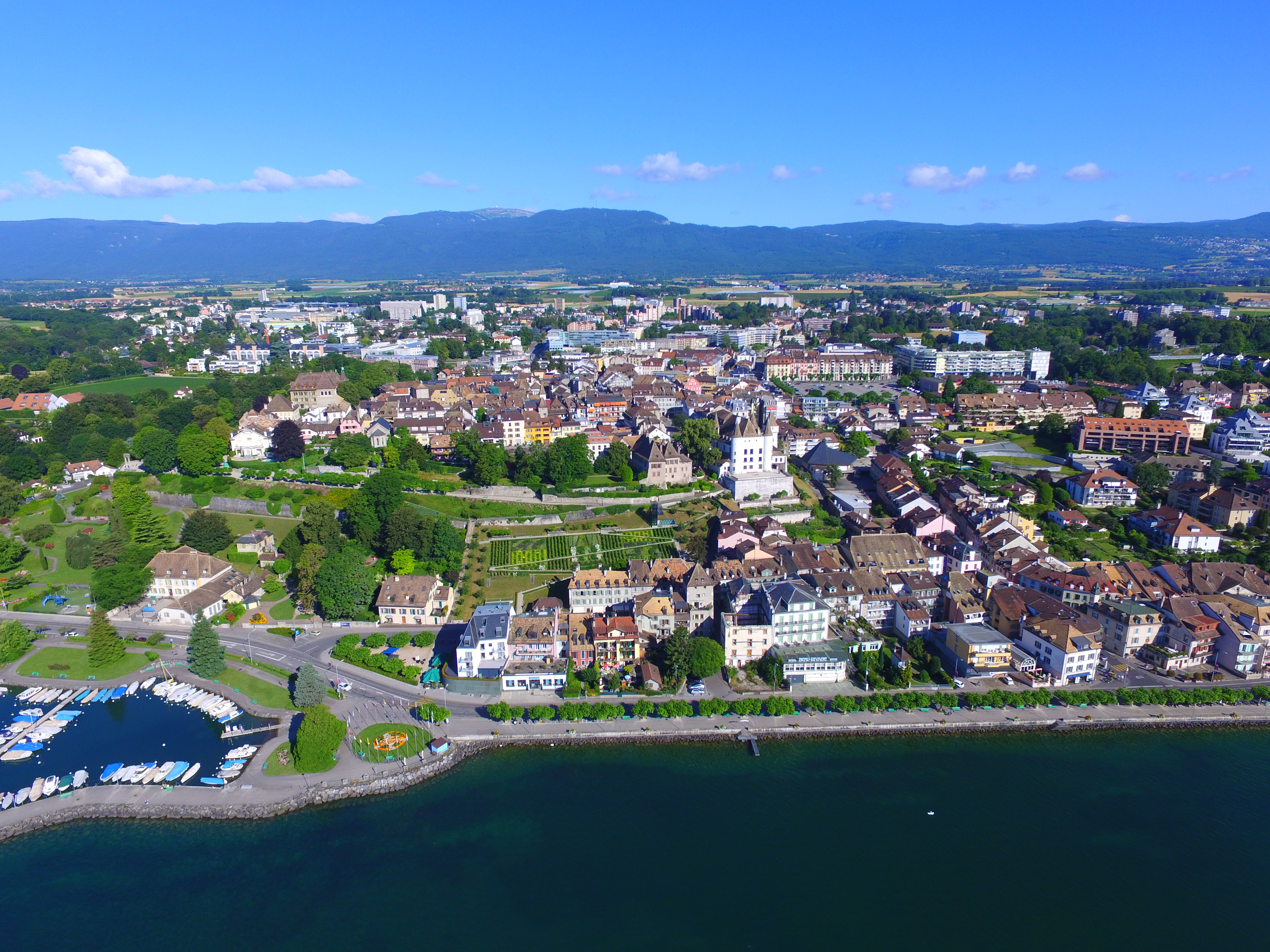 Nyon, aerial vie